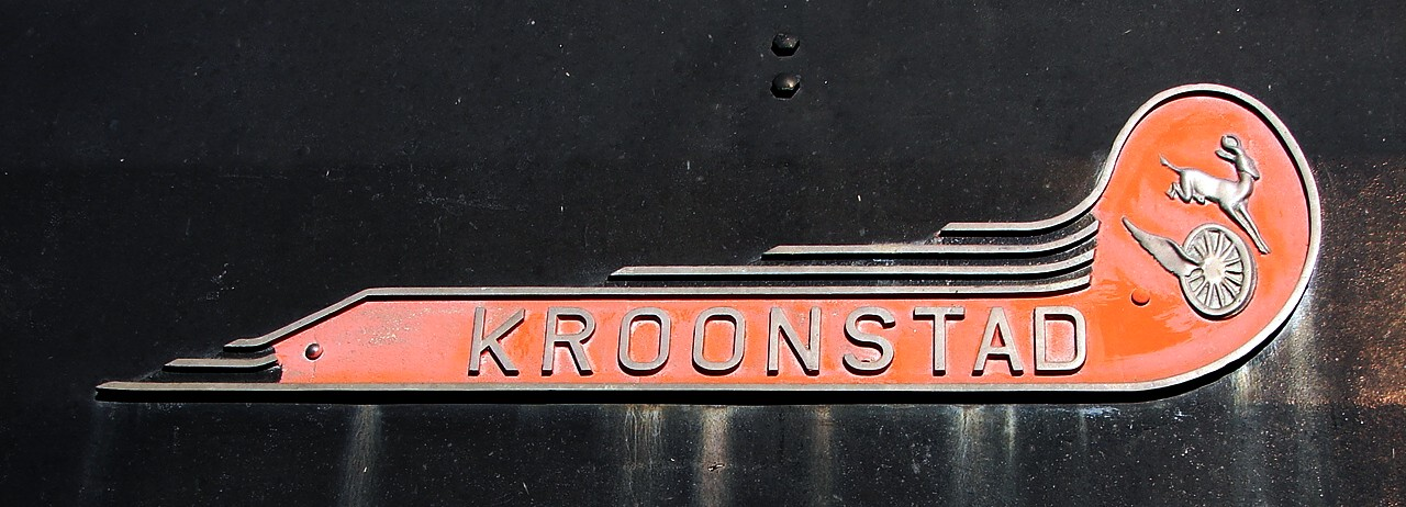 Kroonstad wing on Class 23 4-8-2 no. 3300